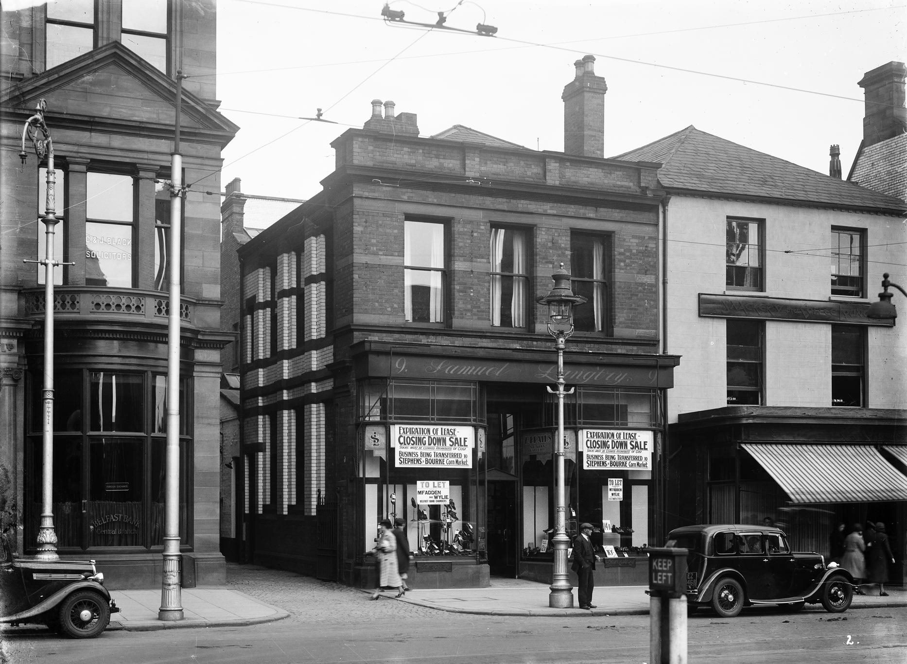 Donegall Square North, Belfast. The Campbell's Coffee House, the place of cultural gatherings from 1930s to 1950s, was situated on the top floor of 8 Donegall Square North (right).